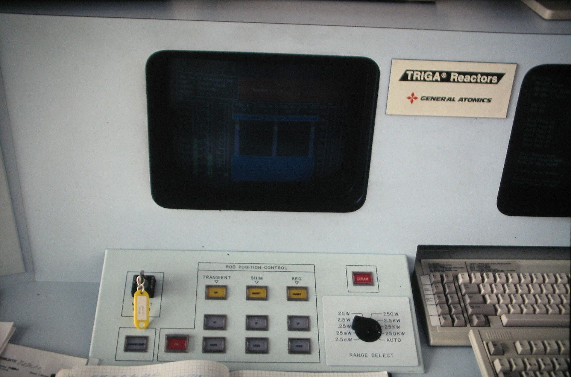 Operator console of the TRIGA reactor at Vienna Atom Institute, Austria (in the center the buttons to operate the 3 control rods; on the right the red SCRAM button).